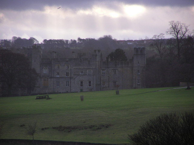 Witton Castle Taken from Station Road, Witton-le-Wear. Witton Castle was first built in the 13th century. Damaged by fire in 1796, rebuilt in the 1800's